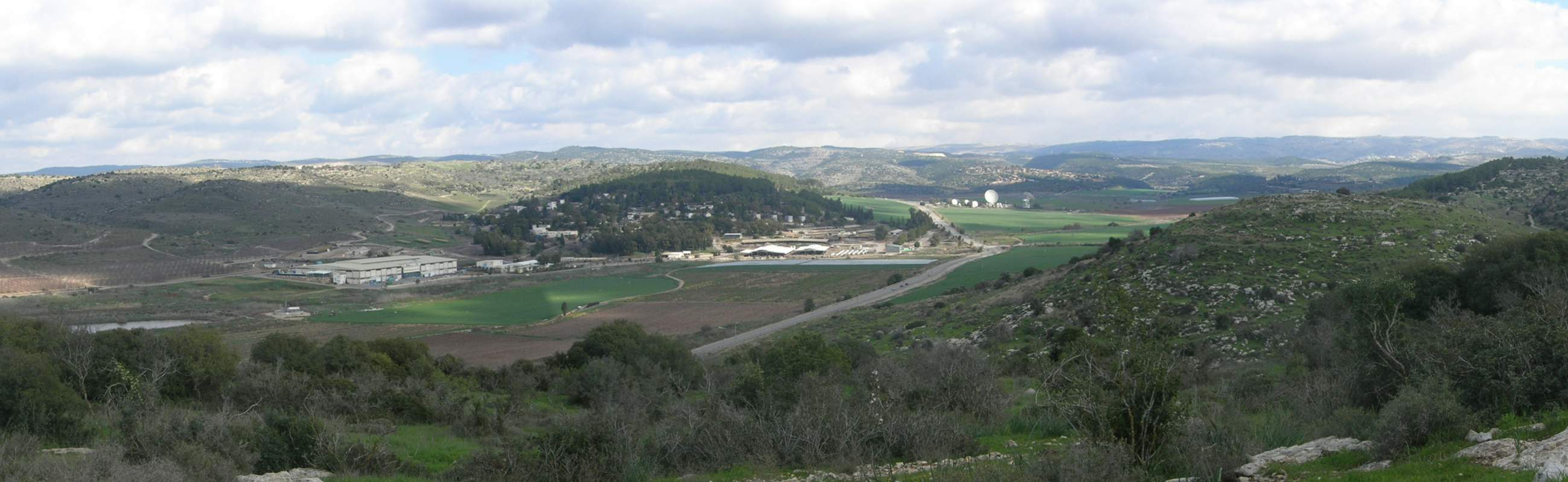 Panoramic view of Netiv Halamedhe in Haela Valey. (Taken from "Kever Hasheich" from the west)